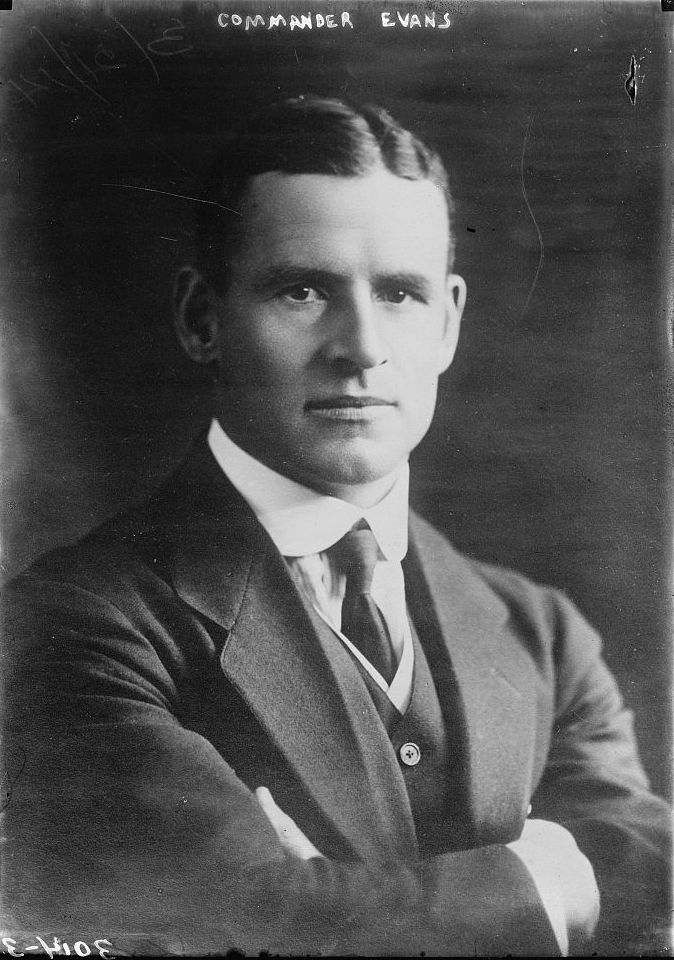 Bain News Service, publisher. Commander Evans, Edward Evans, 1st Baron Mountevans in 1914 [between ca. 1910 and ca. 1915] 1 negative : glass ; 5 x 7 in. or smaller. Notes: Title from unverified data provided by the Bain News Service on the negatives or caption cards. Forms part of: George Grantham Bain Collection (Library of Congress). Format: Glass negatives. Repository: Library of Congress, Prints and Photographs Division, Washington, D.C. 20540 USA, General information about the Bain Collection is available at Persistent URL: Call Number: LC-B2- 3014-3